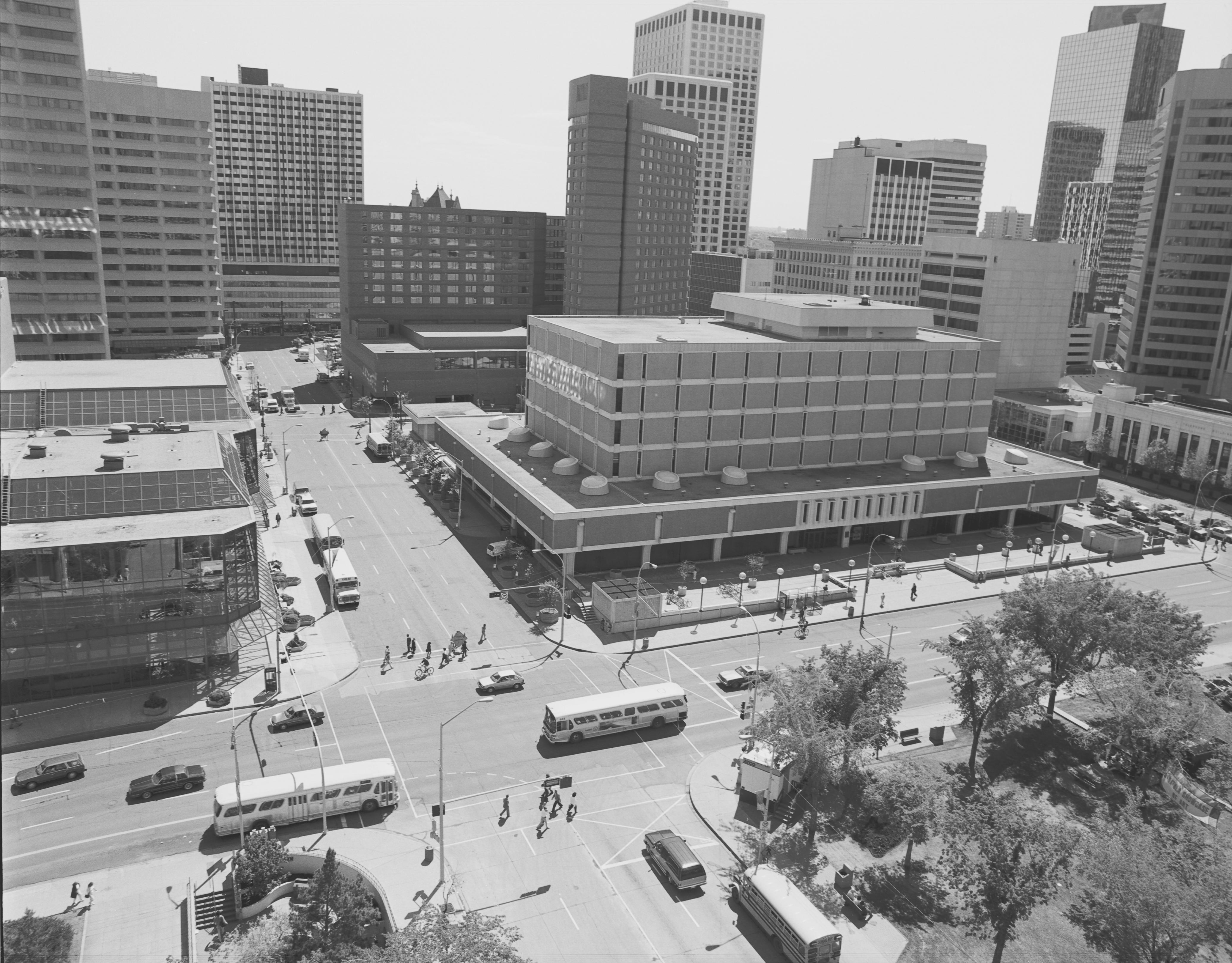 Black and white photo of the Stanley A. Milner Library in Downtown Edmonton taken sometime in 1989